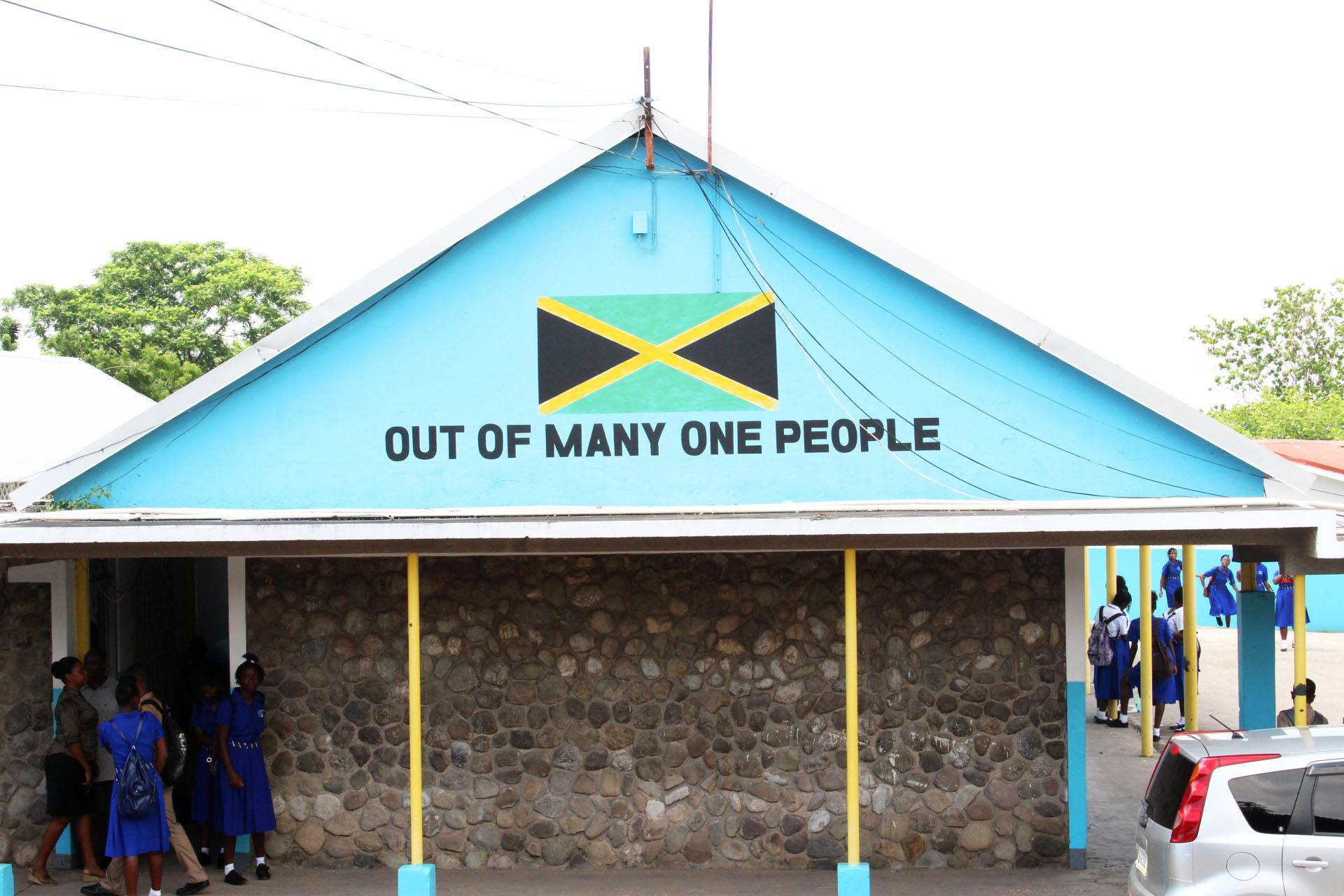 Jamaica's motto: "Out of many, one people."